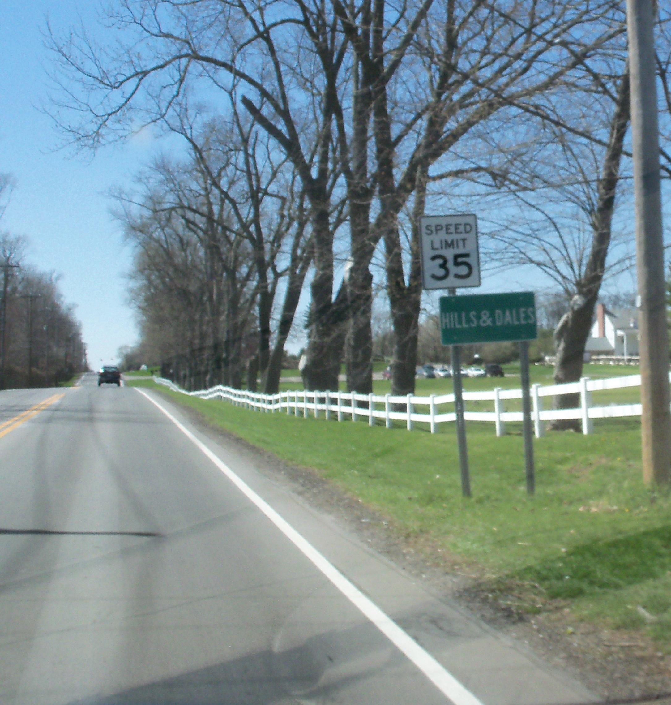 Hills and Dales Road in Stark County, Ohio becomes a 35 miles per hour zone withing the few hundred yards of the village of Hills and Dales, Ohio.